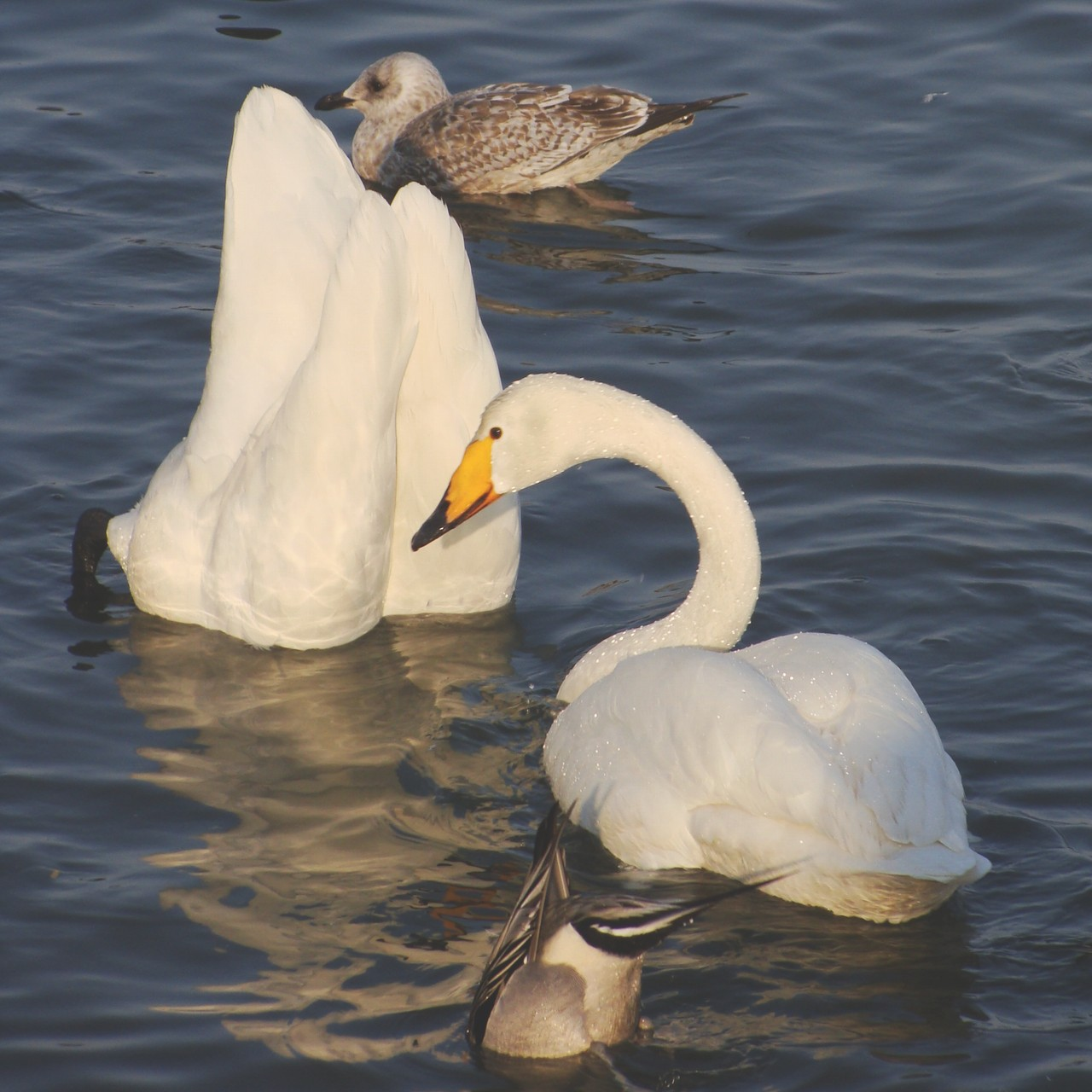 Two Whooper Swans (Cygnus cygnus), a first winter Vega Gull (Larus vegae) and a male Northern Pintail (Anas acuta)